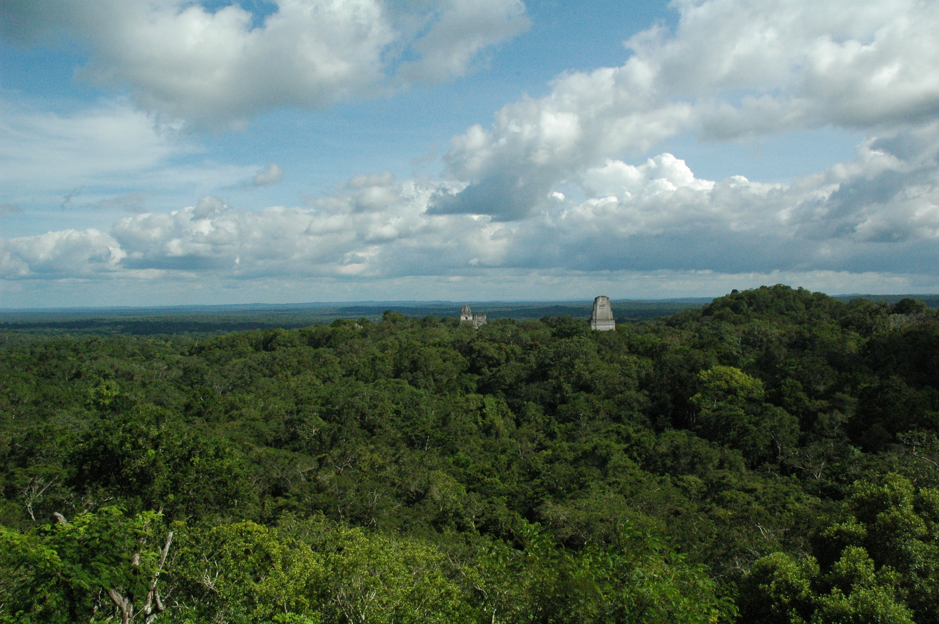 A scene from the rebel base of Yavin. Orginal description: I took this shot from the top of a temple at Tikal, Guatemala and knew it looked familar. When I got home and checked on the internet, I realized it was used in a scene in the first Star Wars movie as the base of the rebels before they attack the Death Star.